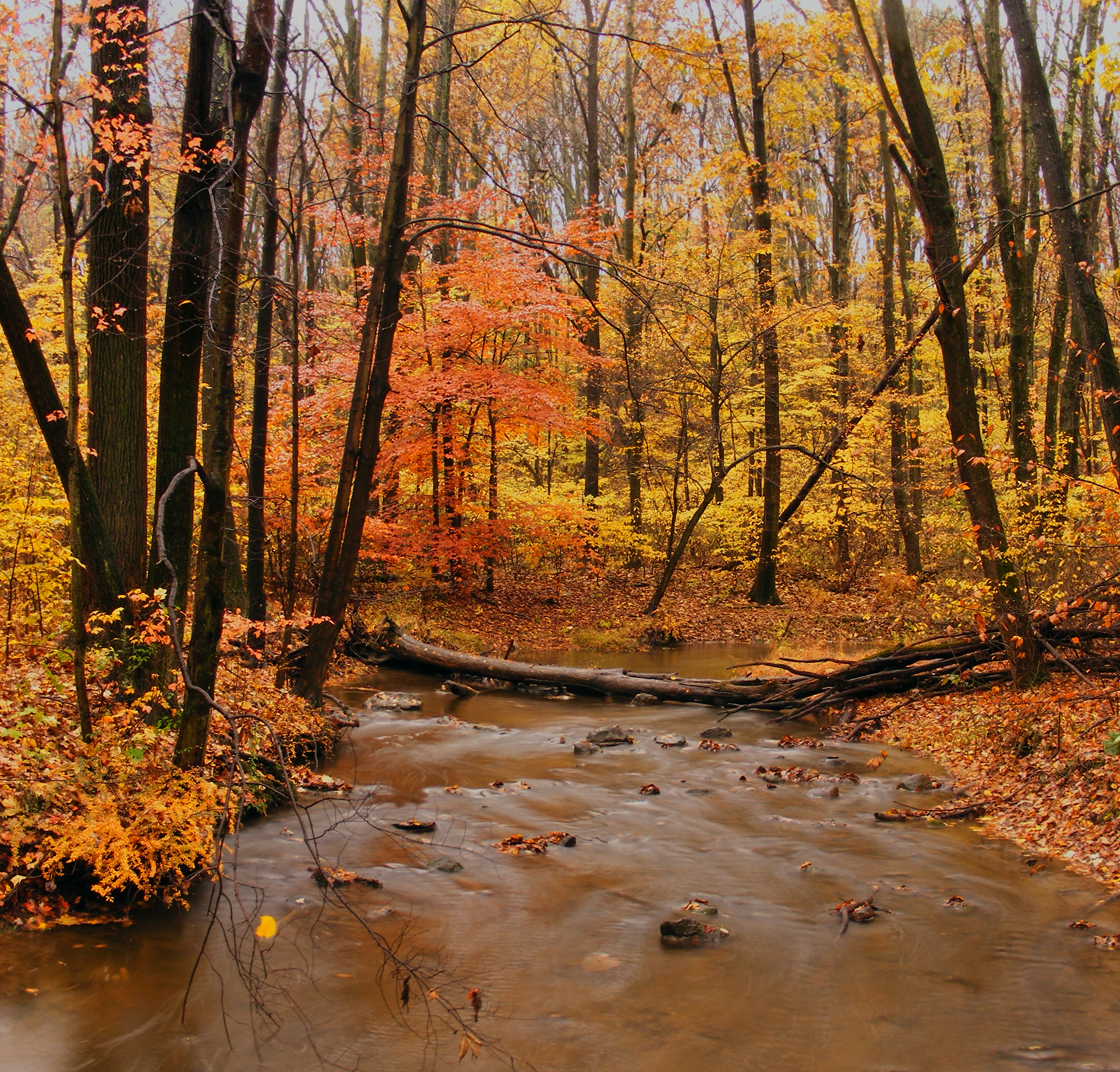 Little Bushkill Creek, Northampton County, as seen from the Plainfield Township Rail-Trail.